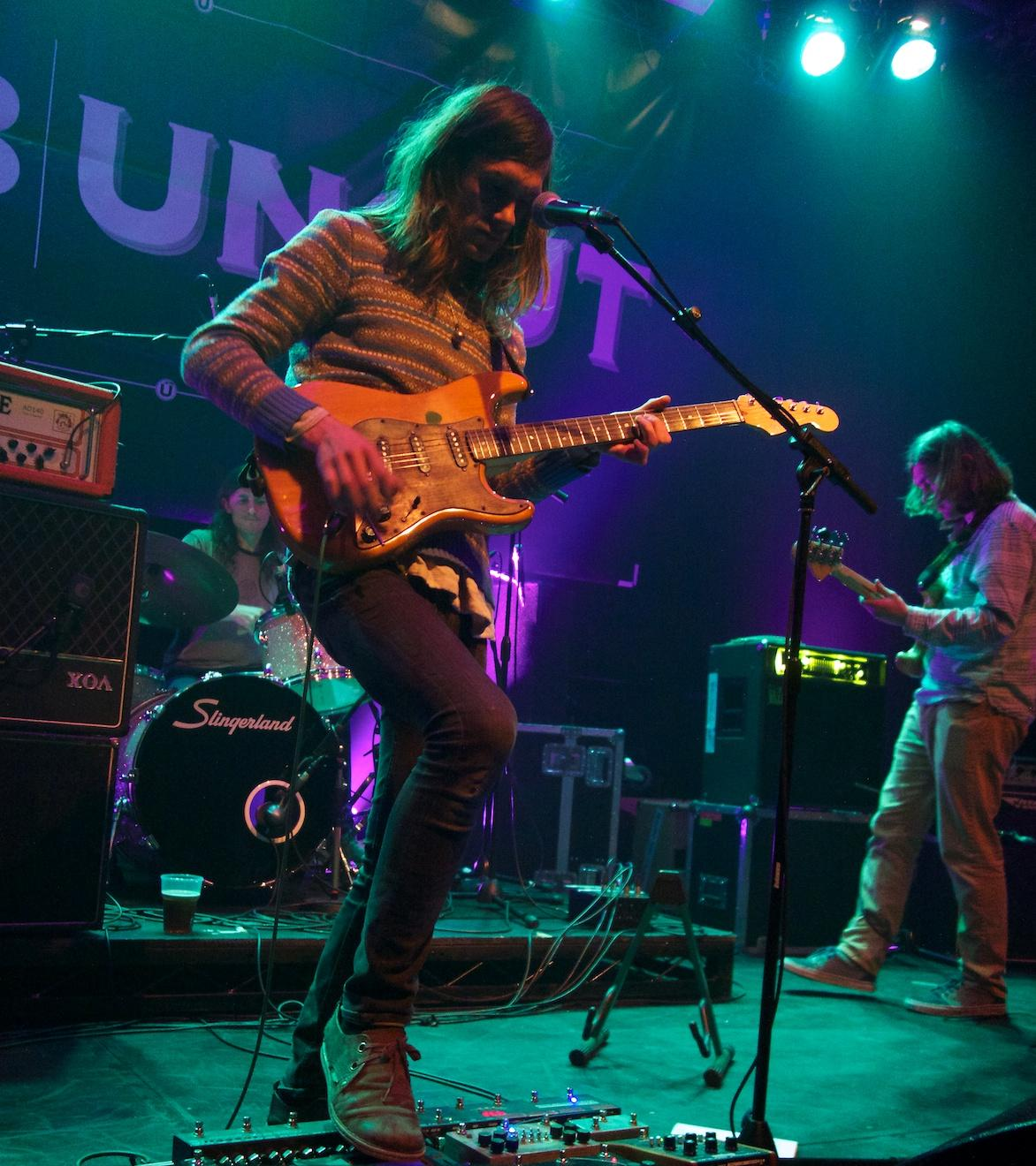 Syd Arthur live in concert.